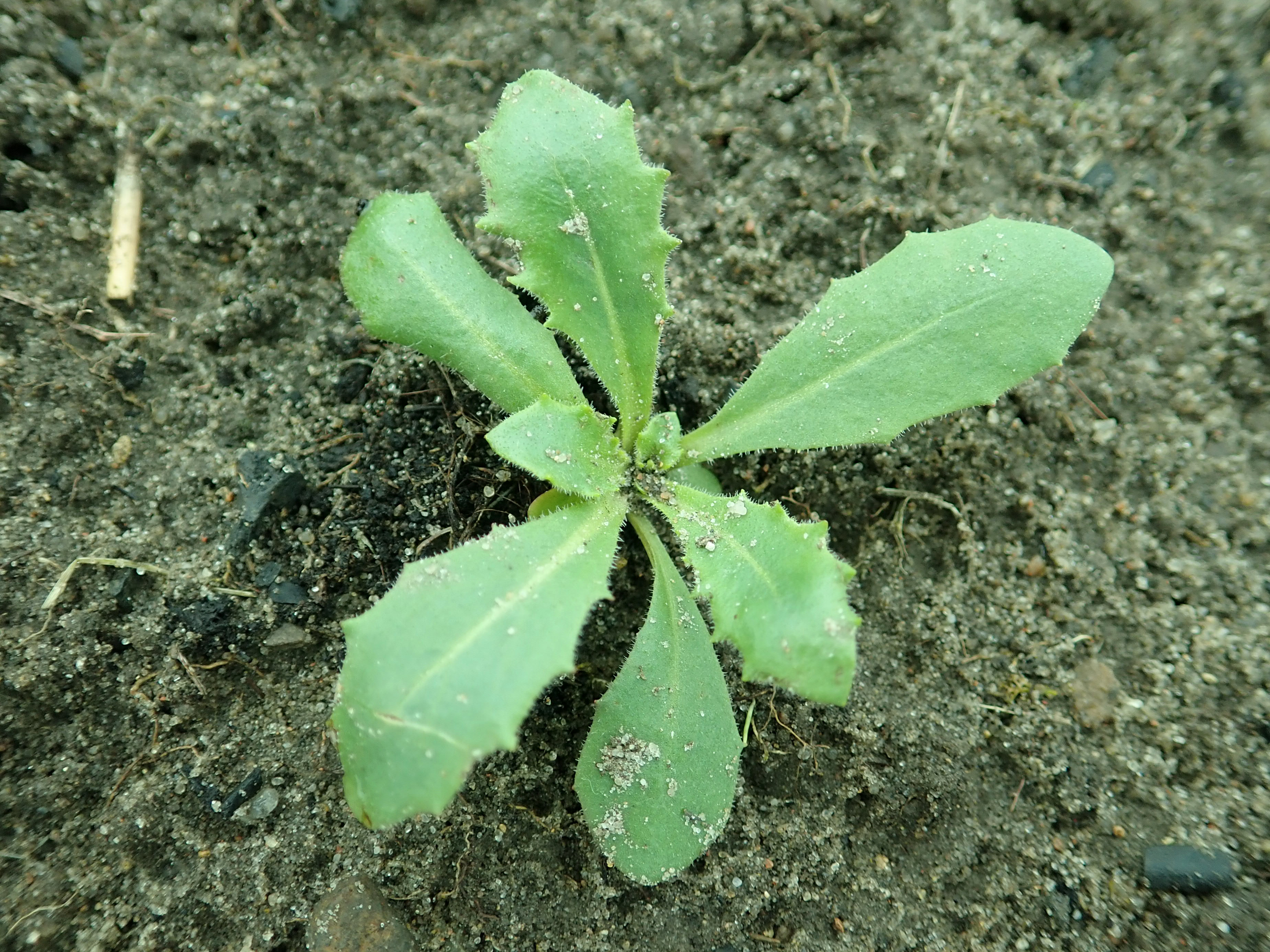 Arnoseris minima, allotment garden in Szczecin, Poland.